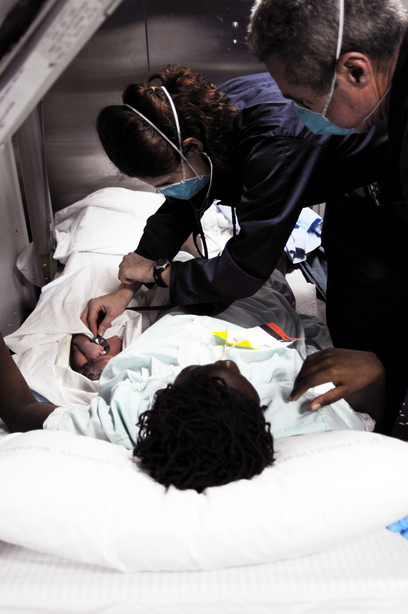 Canadian and American navy personnel treat a Haitian woman and her baby following the 2010 earthquake.